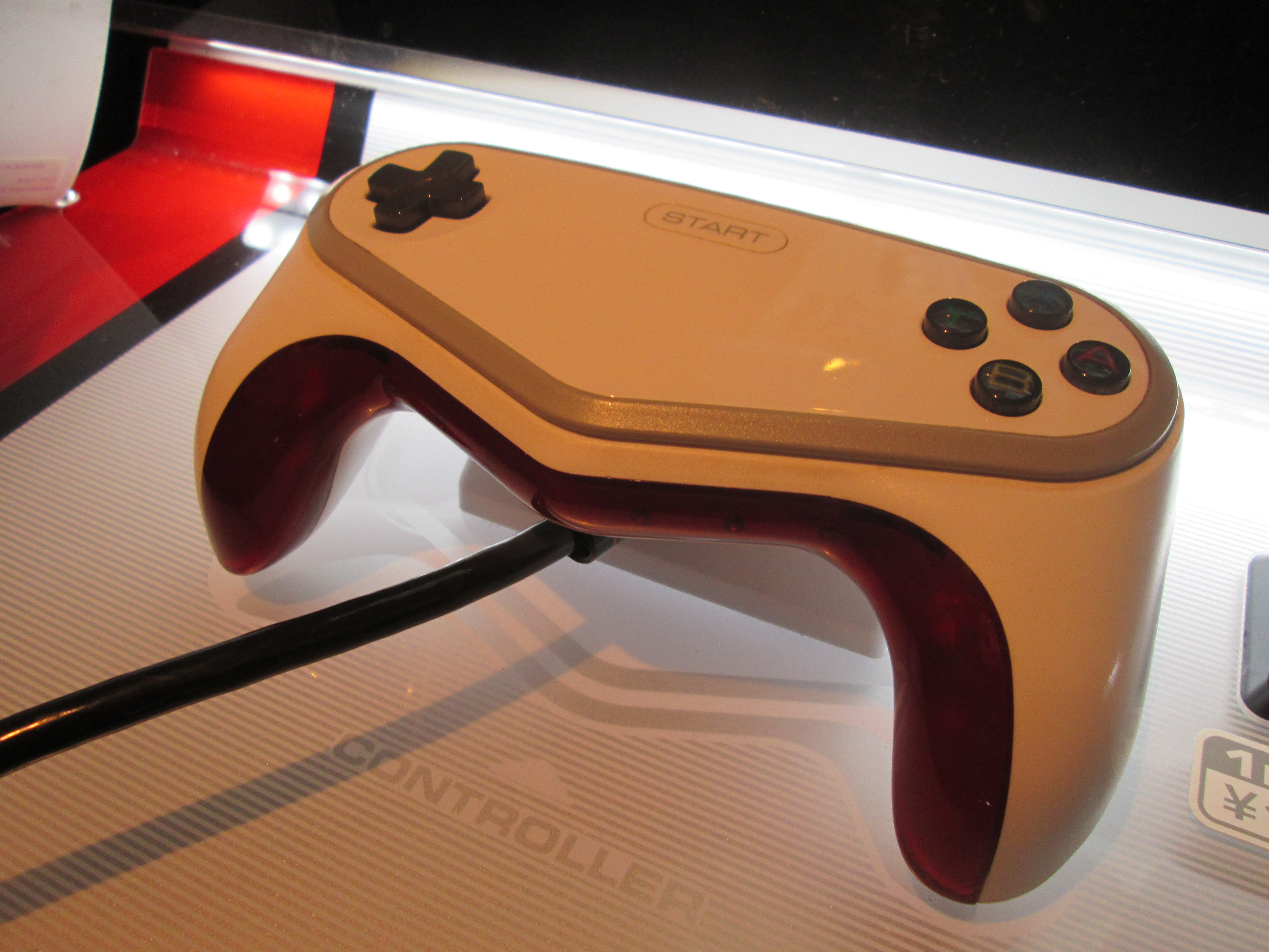 Pokkén Arcade Gamepad